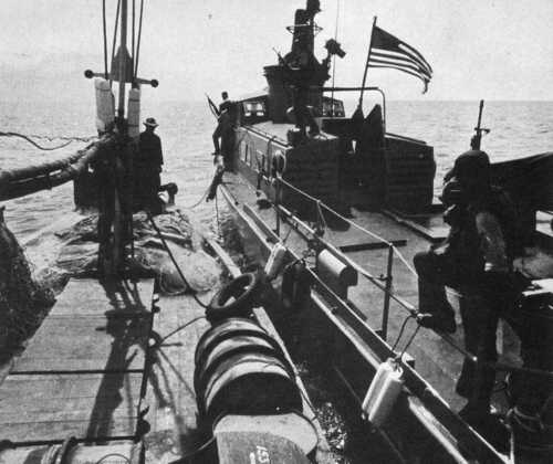 Fast Patrol Craft (PCF, Swift boat) coming along vietnamese junk